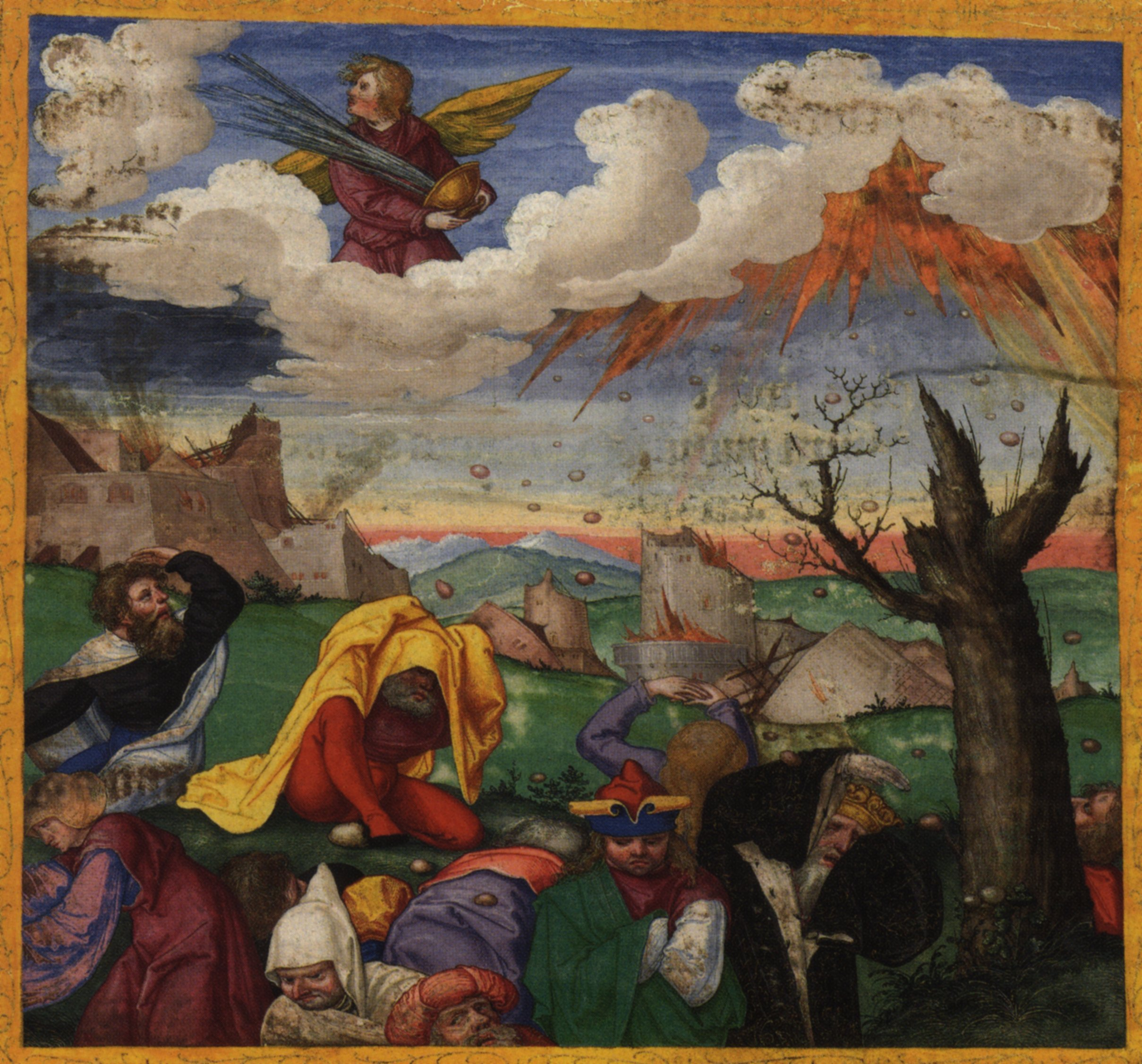 Page 299: The Giving of the Seventh Bowl of Wrath, Revelation 16:17-21